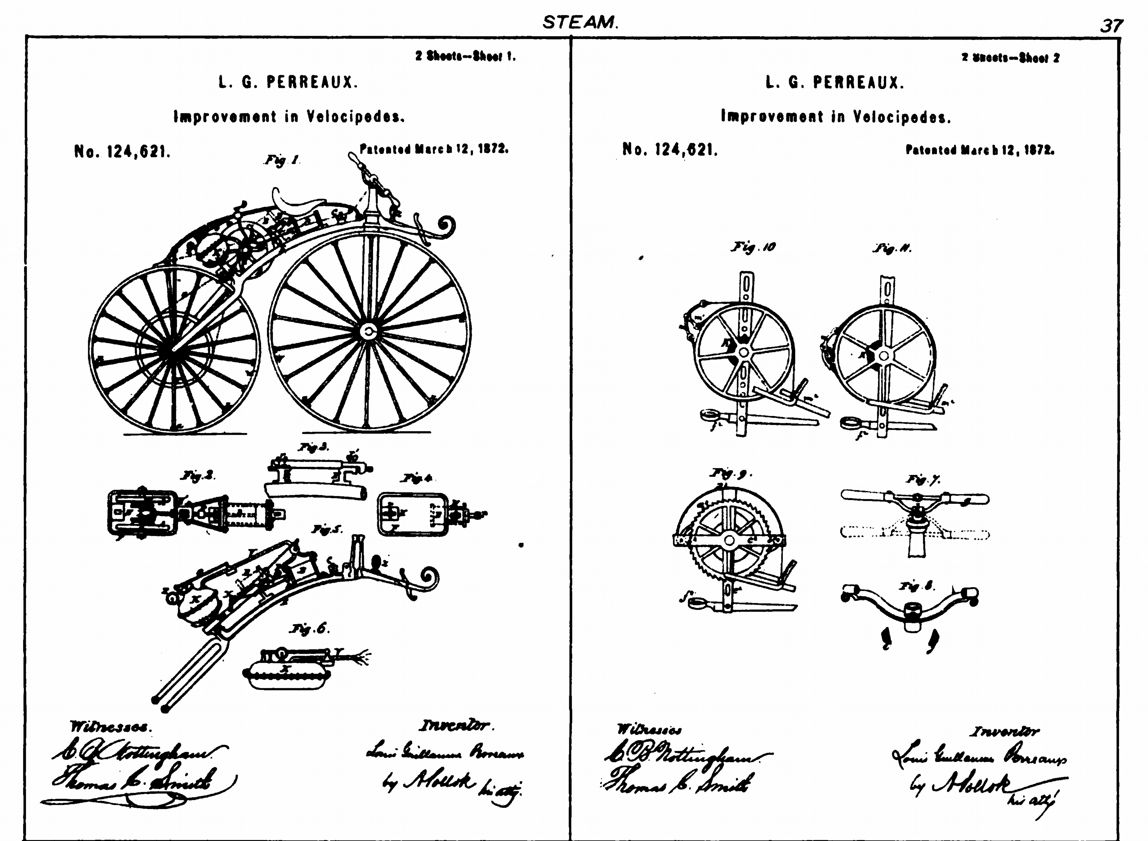 Patent for improved Michaux-Perreaux steam velocipede. March 12, 1872. Title Digest of United States automobile patents from 1789 to July 1, 1899: including all patents officially classed as traction-engines for the same period. Chronologically arranged ... together with lists of patents in the classes of portable-engines, traction-wheels, electric locomotivs, and ... Compiled by James Titus Allen Publisher H. B. Russell & Company, 1900 Original from Princeton University Digitized Feb 5, 2010